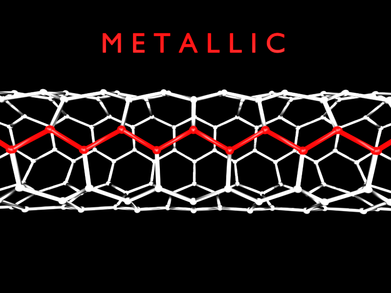 diagram highlighting the molecular structure which results in a metallic carbon nanotube